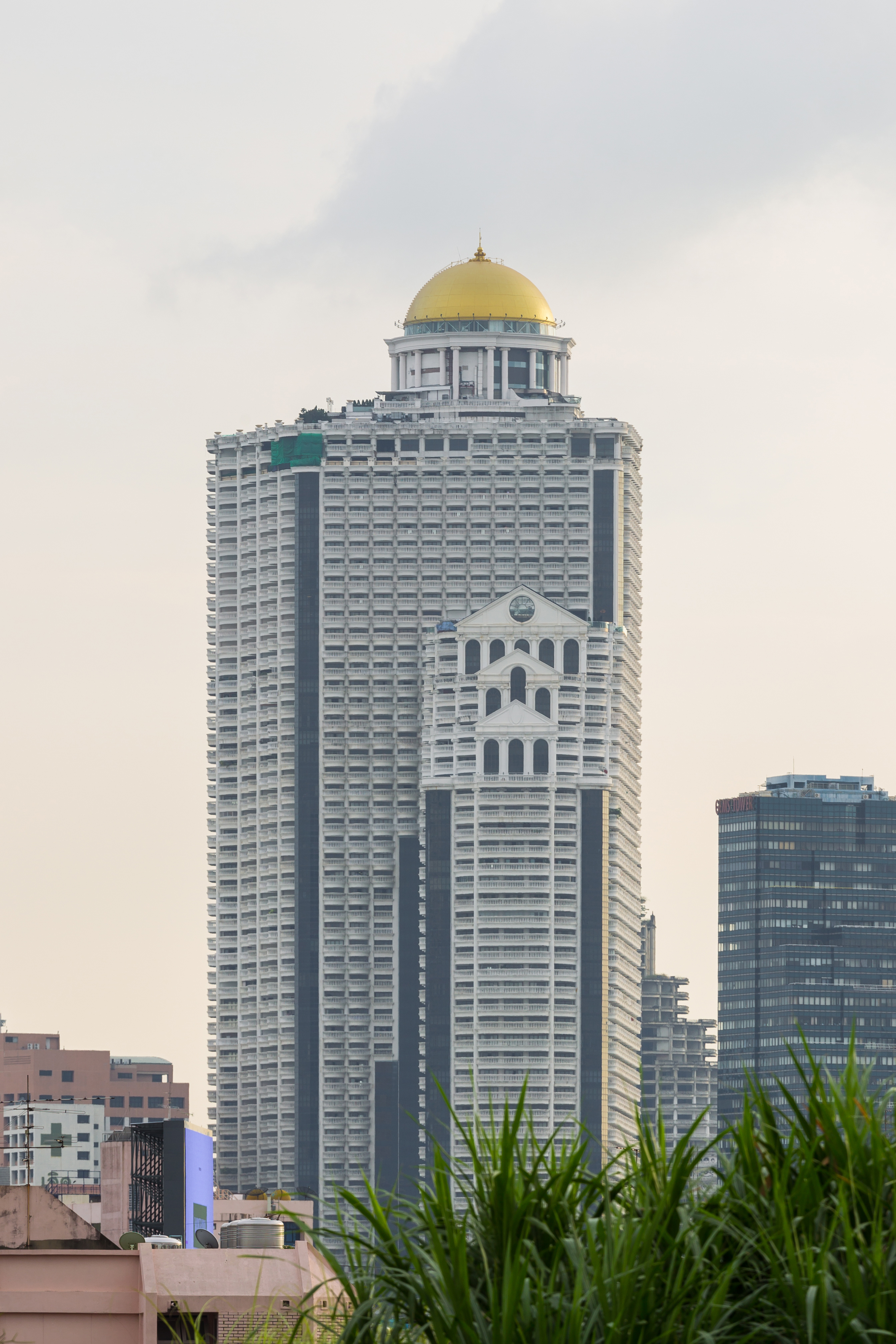 State Tower, Bangkok.